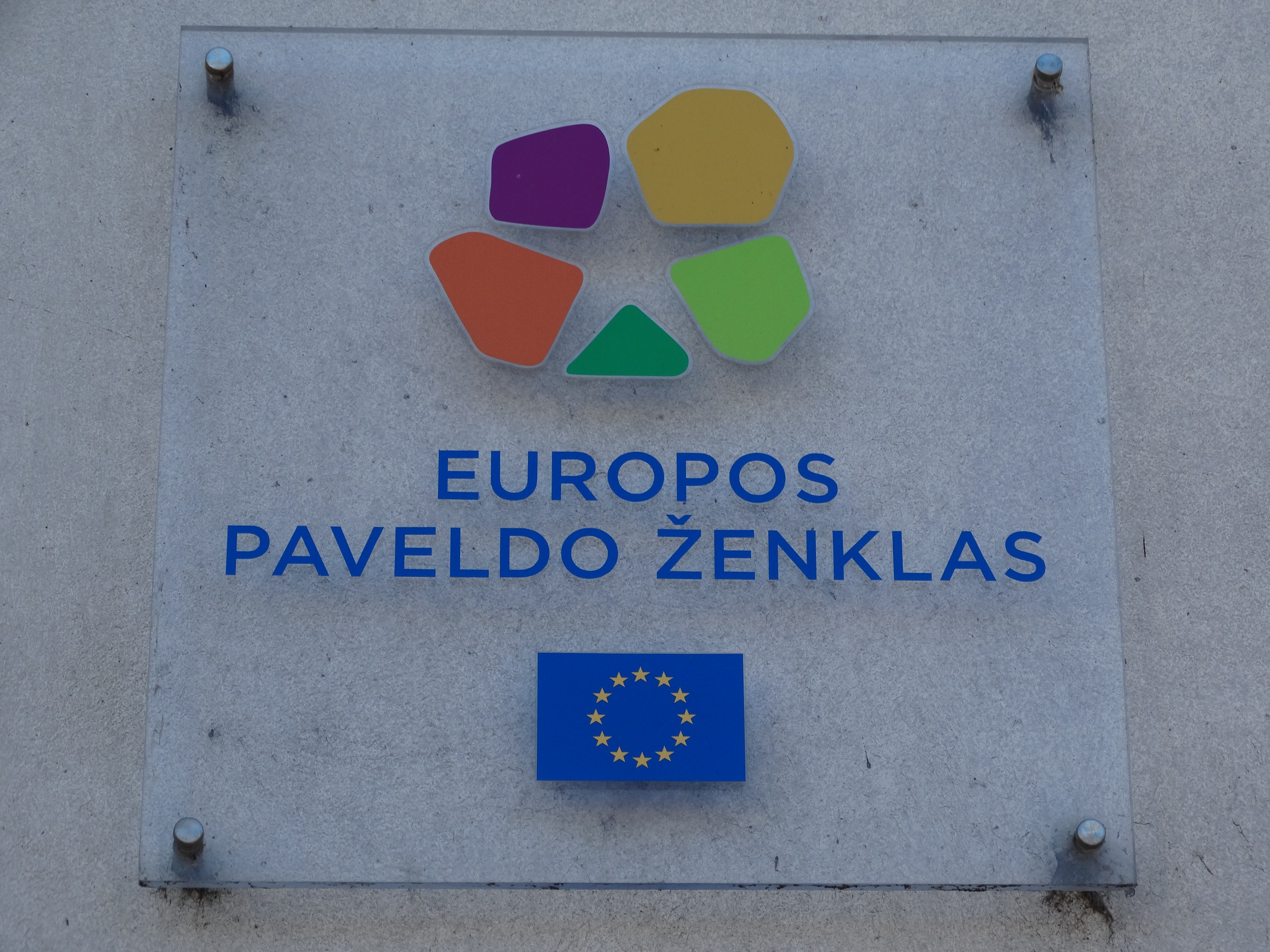 European Heritage sign, Lithuania